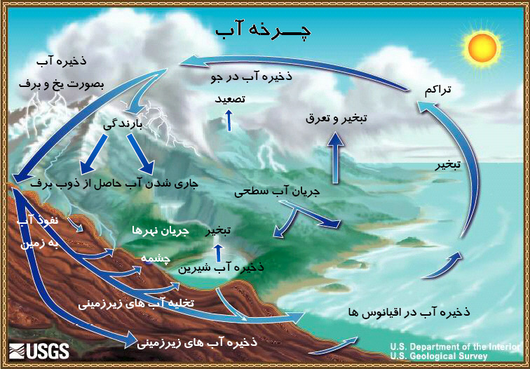 Water-Cycle Diagram (Persian)